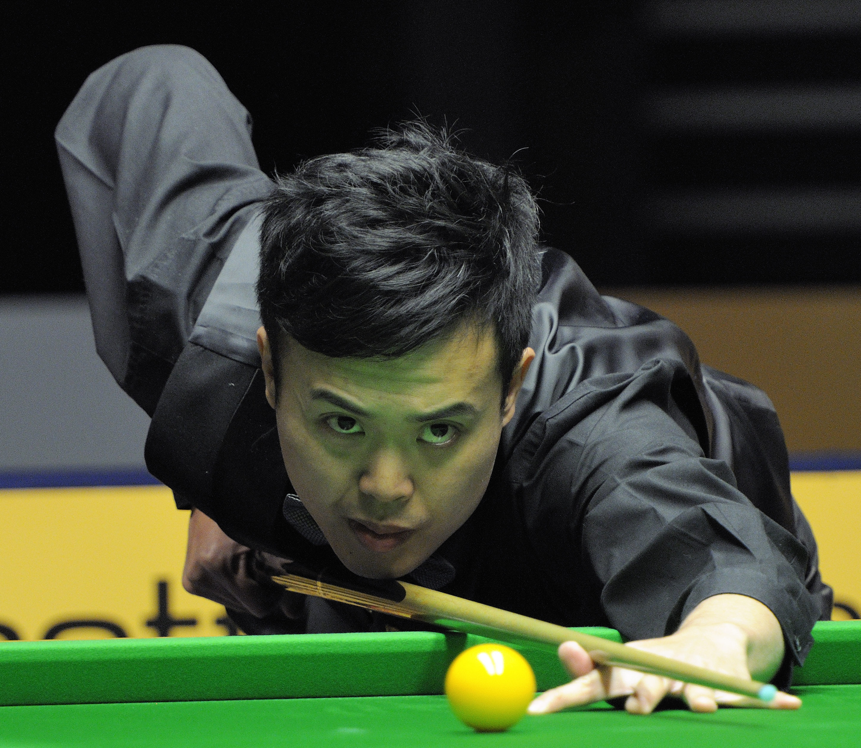 Picture taken in Berlin during the Snooker German Masters in 2013. Marco Fu.